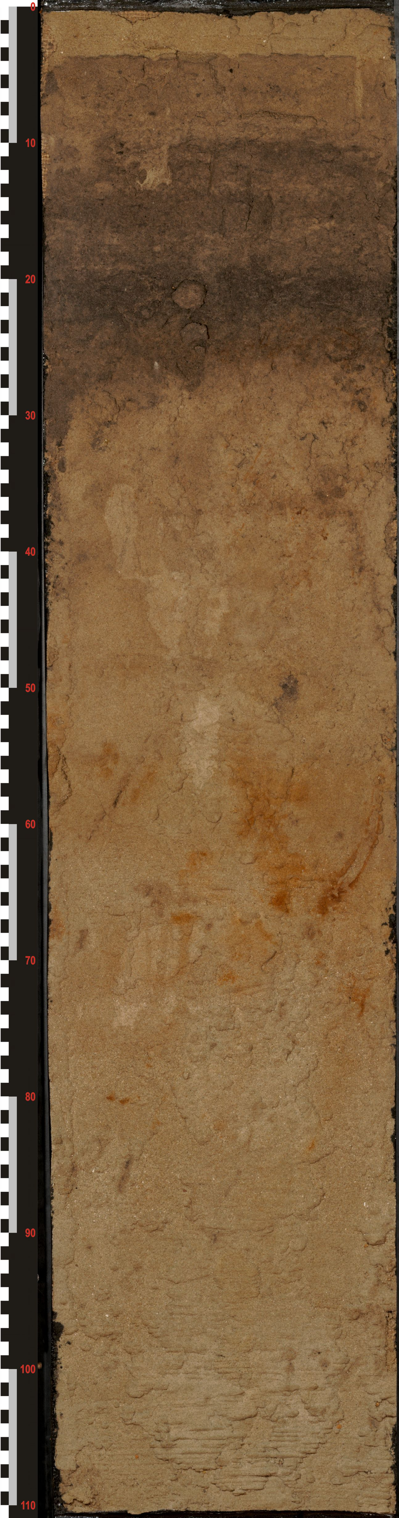 ISRIC World Soil Reference Collection (Arenosols). Profile URL